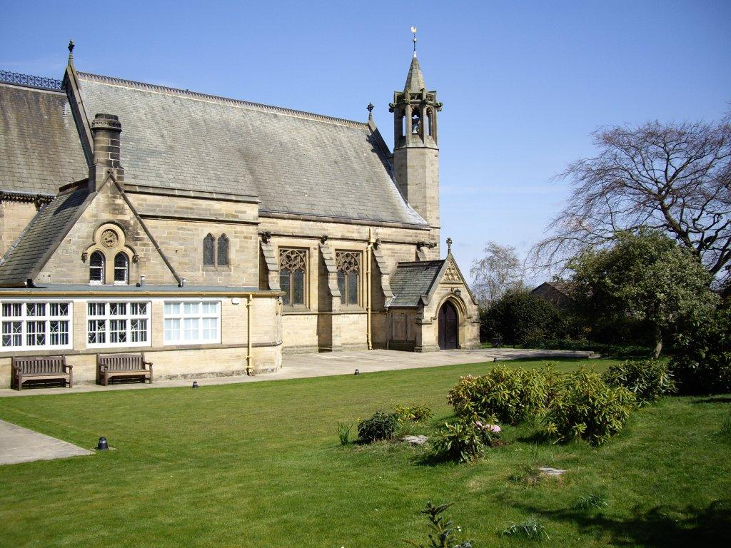 Catholic Church of Our Lady and St Cuthbert, Prudhoe, Northumberland. This was originally built as a chapel in the grounds of Prudhoe Hall and opened in 1891. Between 1904 and 1905, the church was taken down and transported into the village of Prudhoe where it was rebuilt on its present site in Highfield lane and reopened on 5th October 1905.